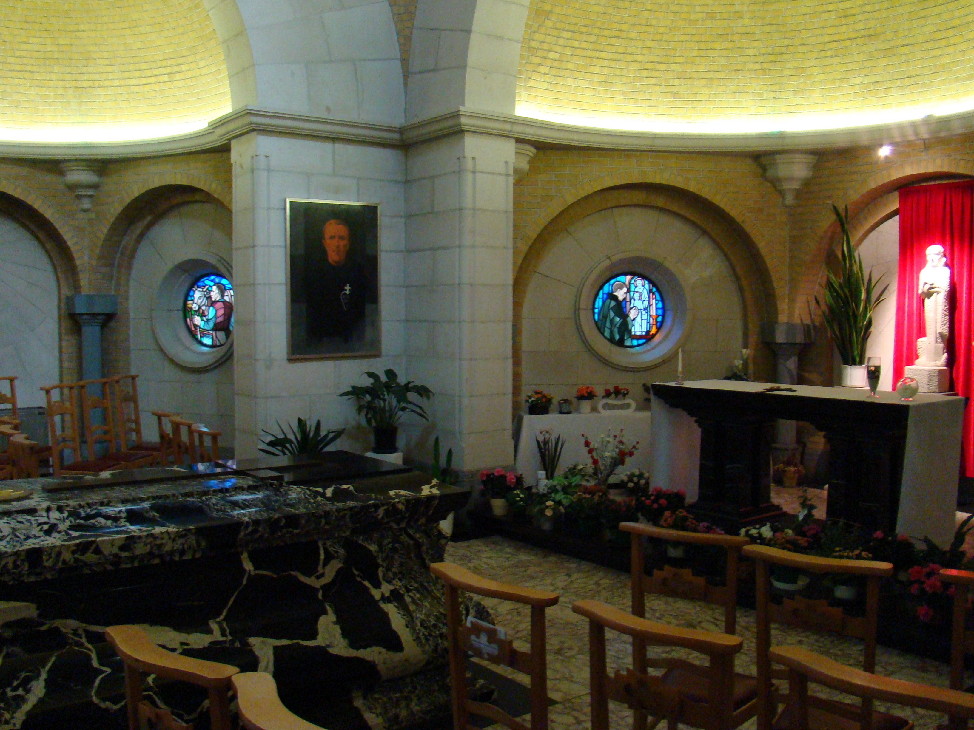 St Antony church Passionists, Kortrijk (West Flanders, Belgium)